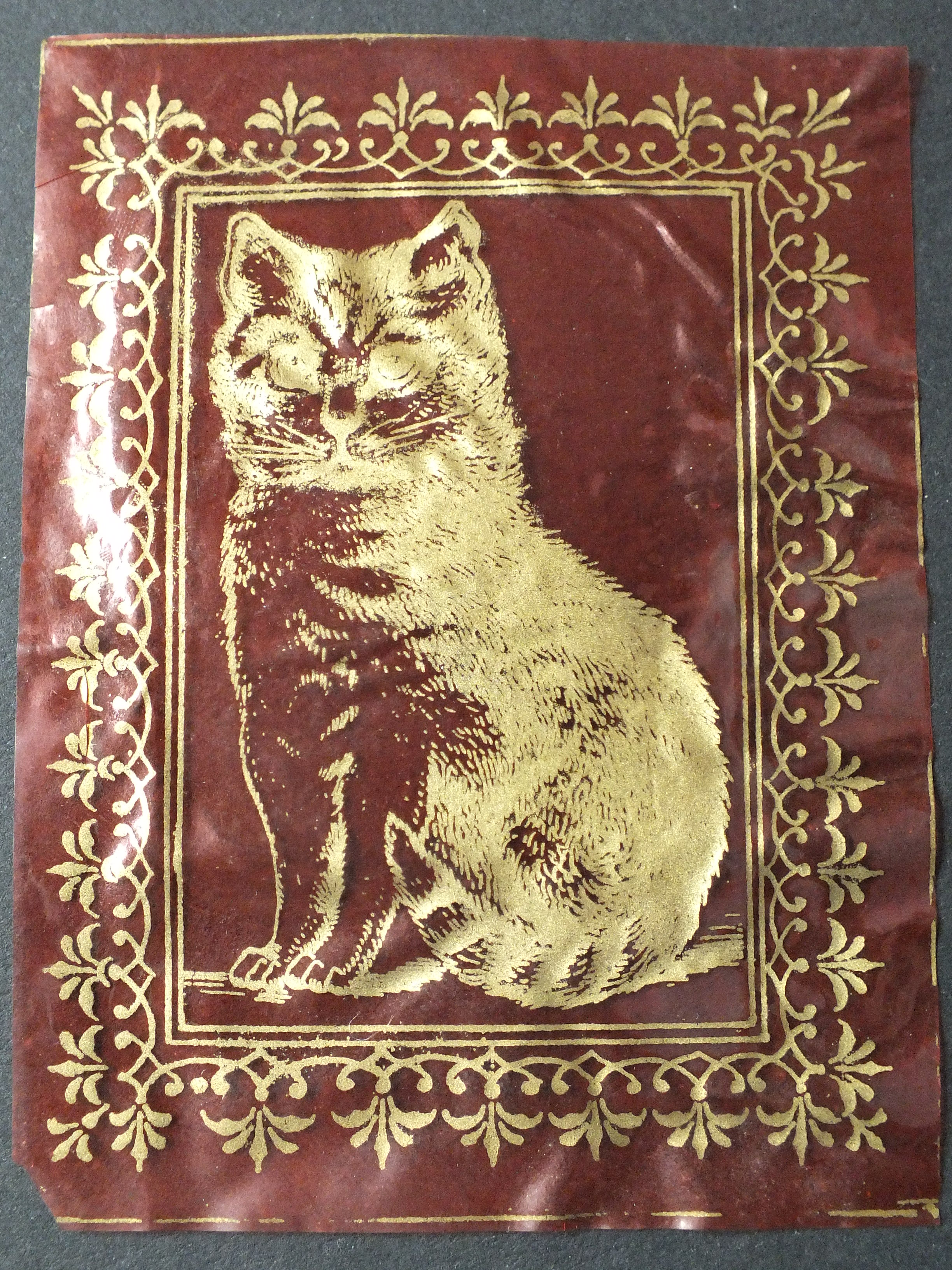 Gelatine picture, Germany, end of 19th century, rectangular, probably coloured and printed gelatine (in earlier times such pictures were made of the swim bladder of beluga), body heat makes it roll up when put on palm or breathed upon, showing a cat, background red, golden print. Used to reward school children.